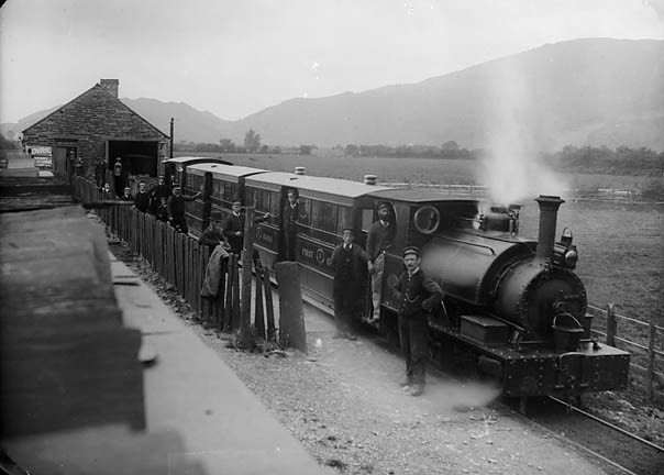 Historic Photograph of the Corris Railway, Wales. Loco Number 1 at Machynlleth.